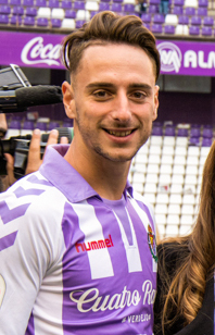 Real Valladolid - Valencia C. F., 38th fixture of the 2018-19 La Liga, May 18, 2019.